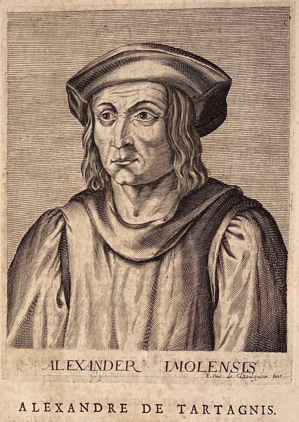 Half-length portrait of Alexander de Tartagnis, Italian jurist, engraved on a copperplate by Esme de Boulonois; from the book Académie Des Sciences Et Des Arts by Isaac Bullart, published in Amsterdam by Elzevier in 1682.